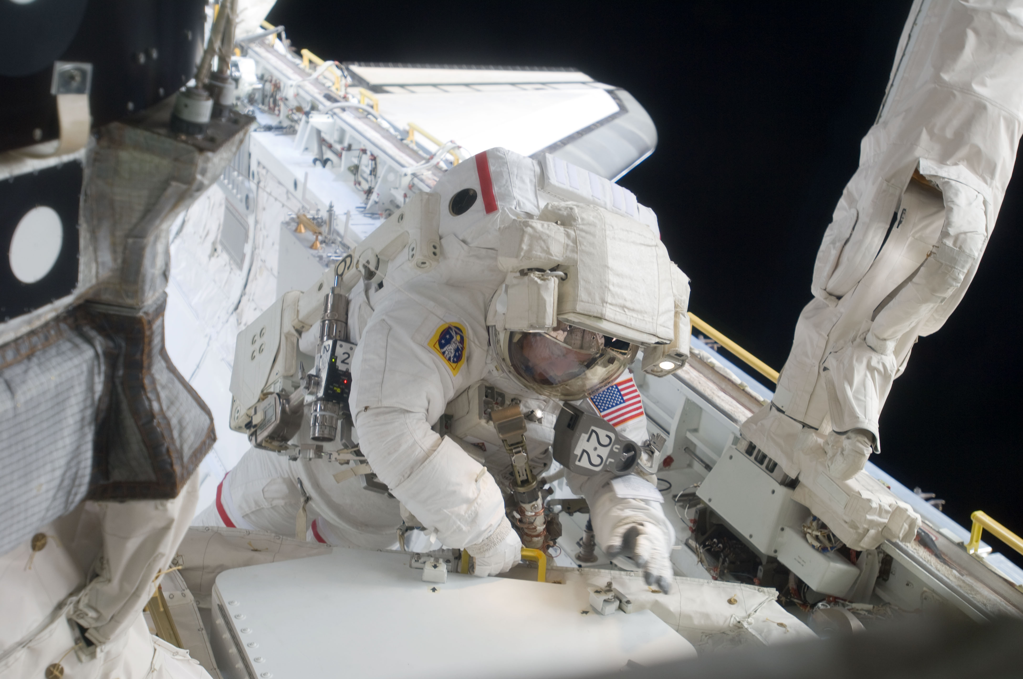 Astronaut Mike Foreman, STS-129 mission specialist, participates in the mission's first session of extravehicular activity (EVA) as construction and maintenance continue on the International Space Station. During the six-hour, 37-minute spacewalk, Foreman and astronaut Robert L. Satcher Jr. (out of frame), mission specialist, installed a spare S-band antenna structural assembly to the Z1 segment of the station's truss, or backbone. Foreman and Satcher also installed a set of cables for a future space-to-ground antenna on the Destiny laboratory and replaced a handrail on the Unity node with a new bracket used to route an ammonia cable that will be needed for the Tranquility node when it is delivered next year. The two spacewalkers also repositioned a cable connector on Unity, checked S0 truss cable connections, and lubricated latching snares on the Kibo robotic arm and the station's mobile base system.